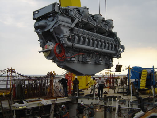 A diesel engine being lifted into the USCGC Bertholf, built at the Northrop Grumman Ship Systems (NGSS) Ingalls Operations in Pascagoula